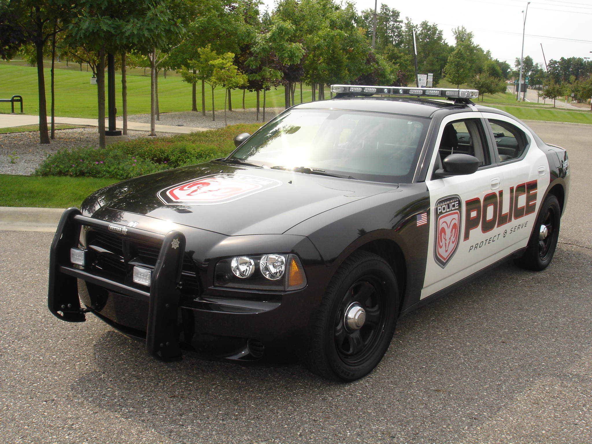 2008 MY Dodge Charger Police Package